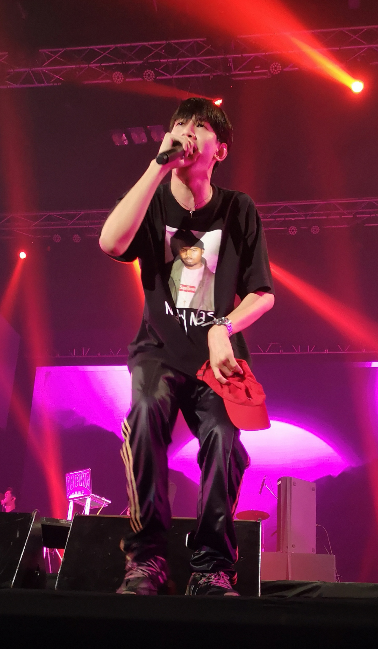 Lazyloxy at Sanamluang Suan Sanarm Festival 2019